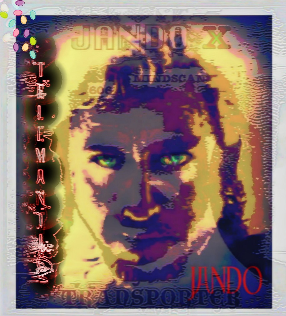 Joey Bond (birth name Jeo Ruv), Magician, Transporter Show Poster Note for copyright purposes, this photo was taken by either an employee of, or by a photographer hired by Michael Laucke. It is a work for hire, owned and paid for by Michael Laucke. It is hereby licensed under Public Domain Dedication (CC0); ALL RIGHTS WAIVED!